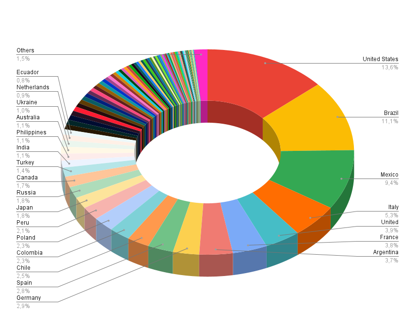 Countries share of Madonna YT Views (2019) made into Google Docs